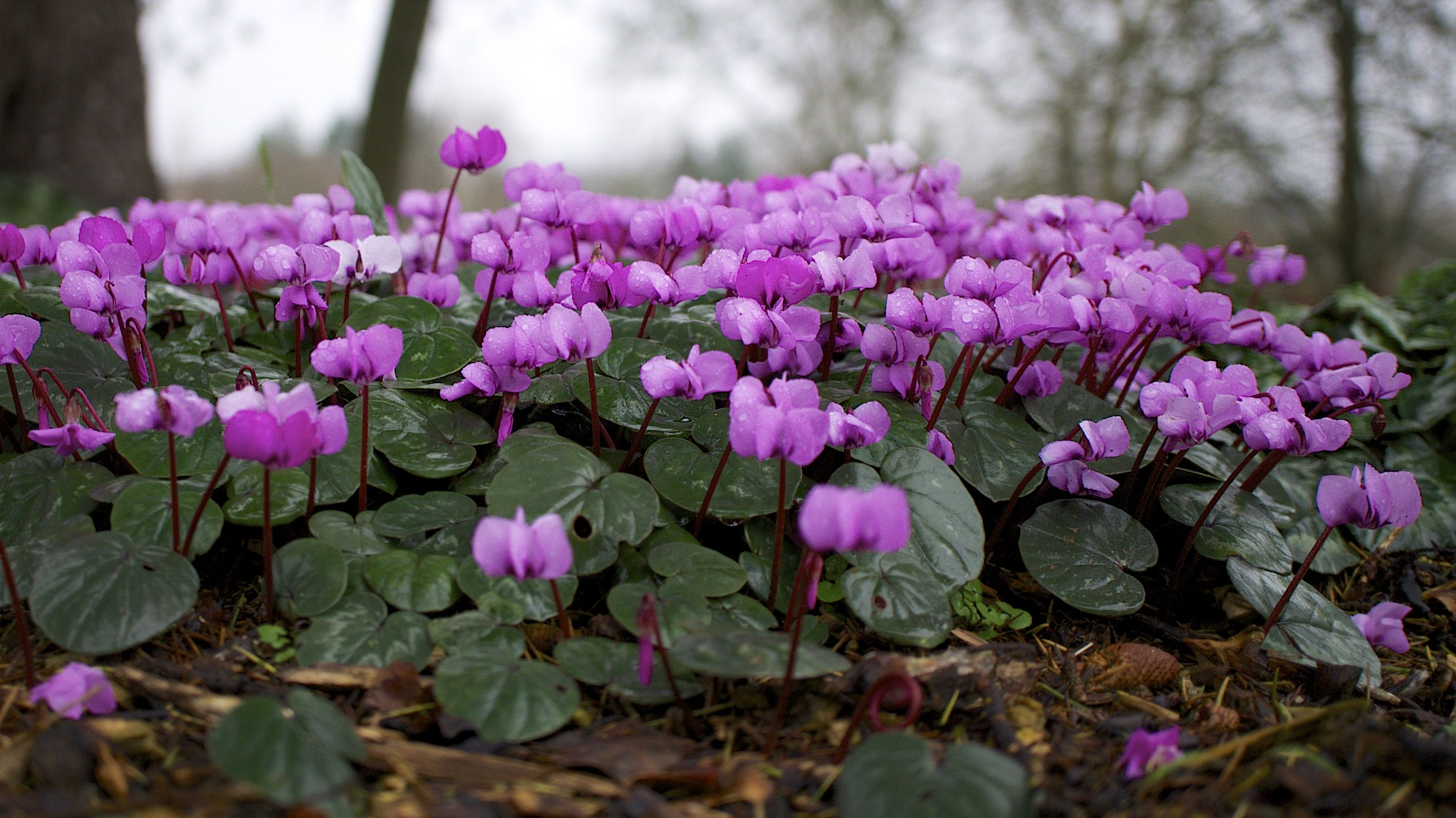 A fine clump of little Cyclamen coum under a cedar tree at Upton Country Park.